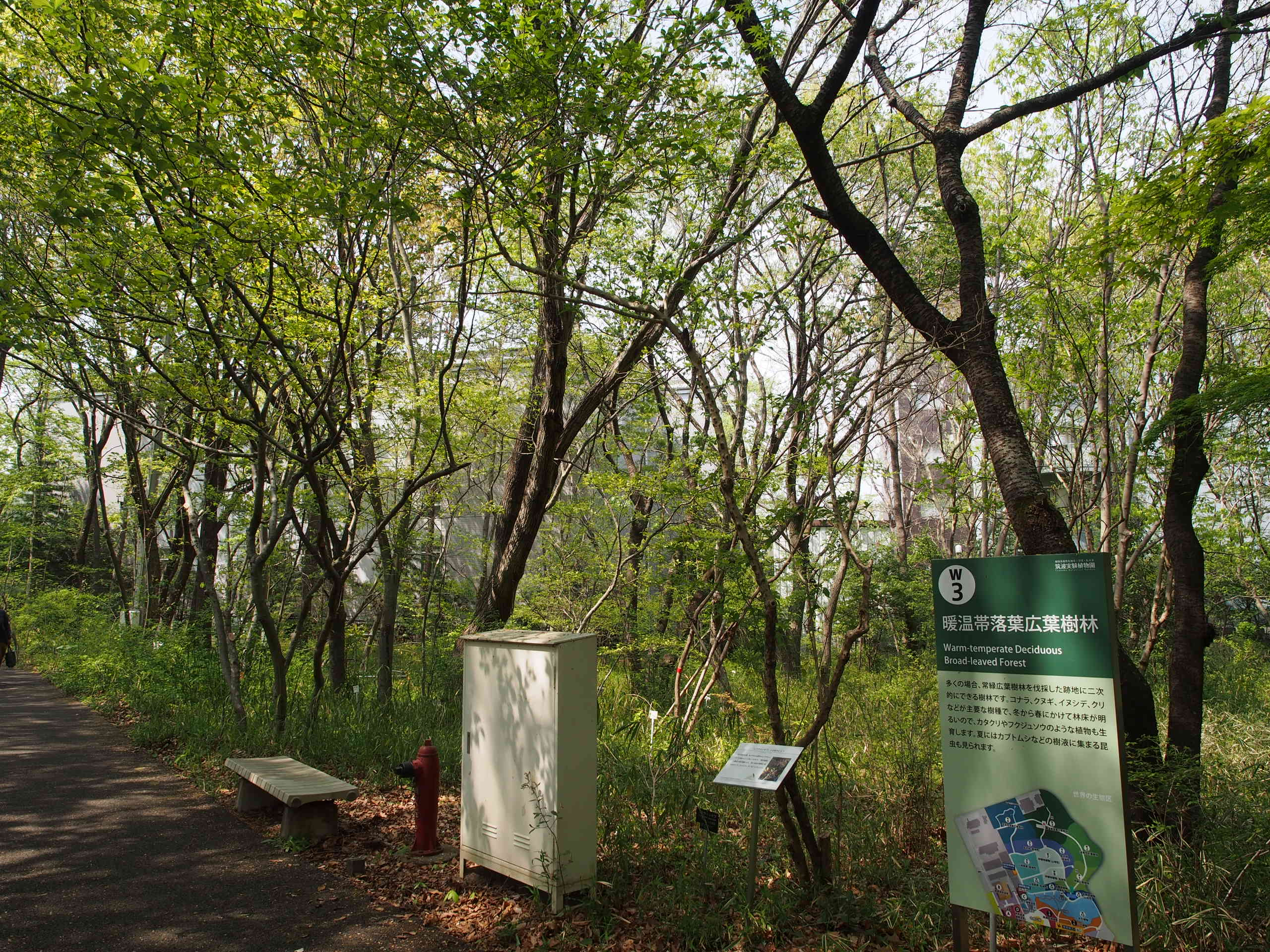 Warm-temperate Deciduous Broad-leaved Forest area of the Tsukuba Botanical Garden, National Museum of Nature and Science, in Tsukuba City, Ibaraki Prefecture, Japan.